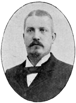 Image scanned from the book "Svenskt Porträttgalleri XX - Arkitekter, Bildhuggare, Målare m.fl. " ("Swedish Portrait Gallery XX - Architects, Sculptors, Painters, ") published 1901